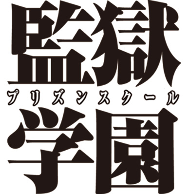 Logo of Prison School (監獄学園)